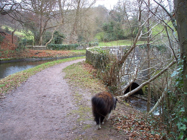 Llanwenarth Aqueduct. This aqueduct is where the Nant Llanwenarth passes under the canal and is where the dry dock and canal overflow drains in to.